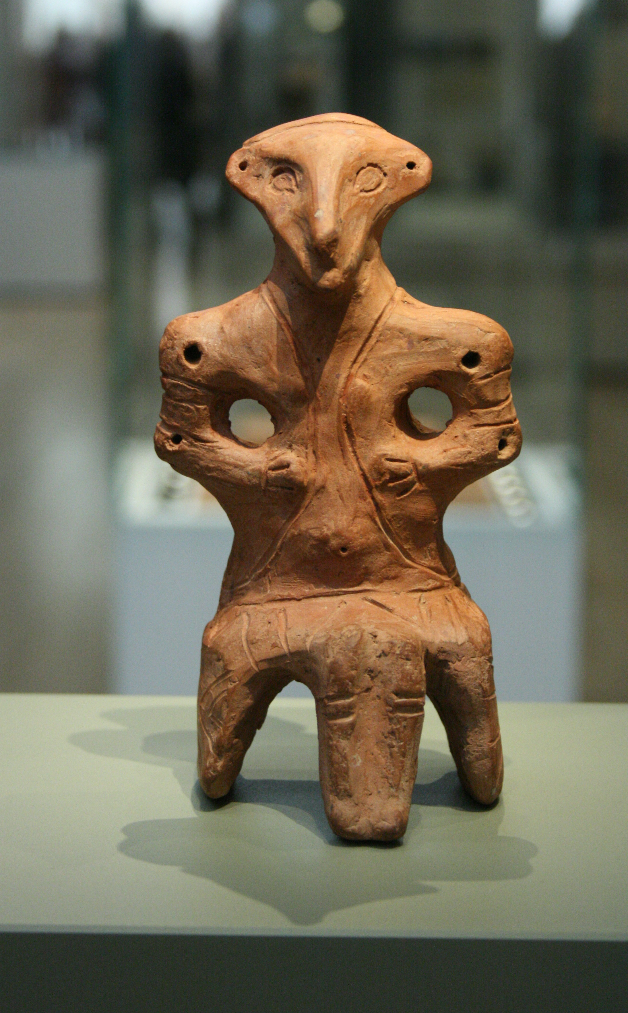 Seated fired clay figurine. Late Neolithic (4500-4000 BC). Vinča (Serbia). Household deity (?)